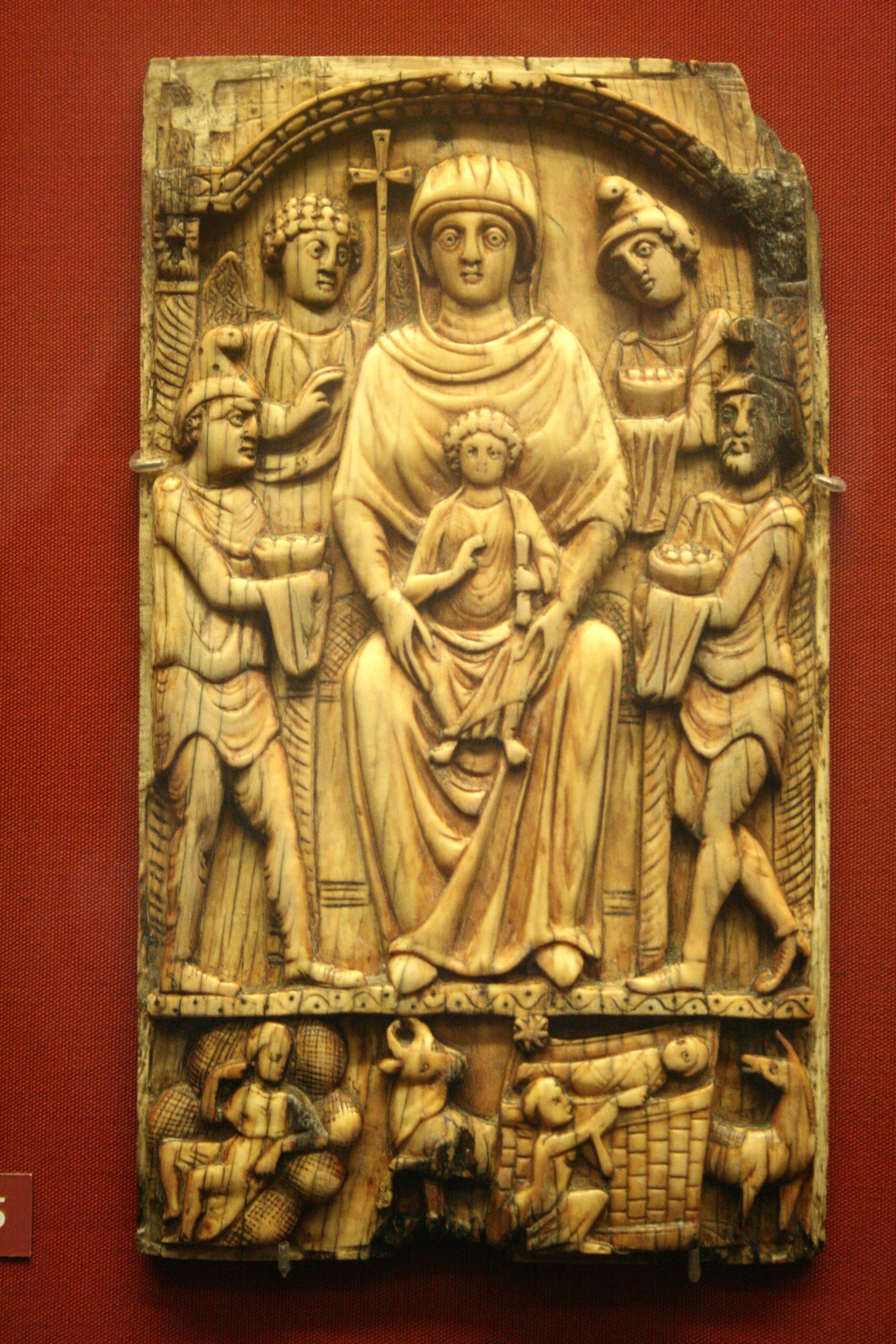 Ivory panel from a Byzantine diptych depicting the Adoration of the Magi (6th century AD). British Museum (London)